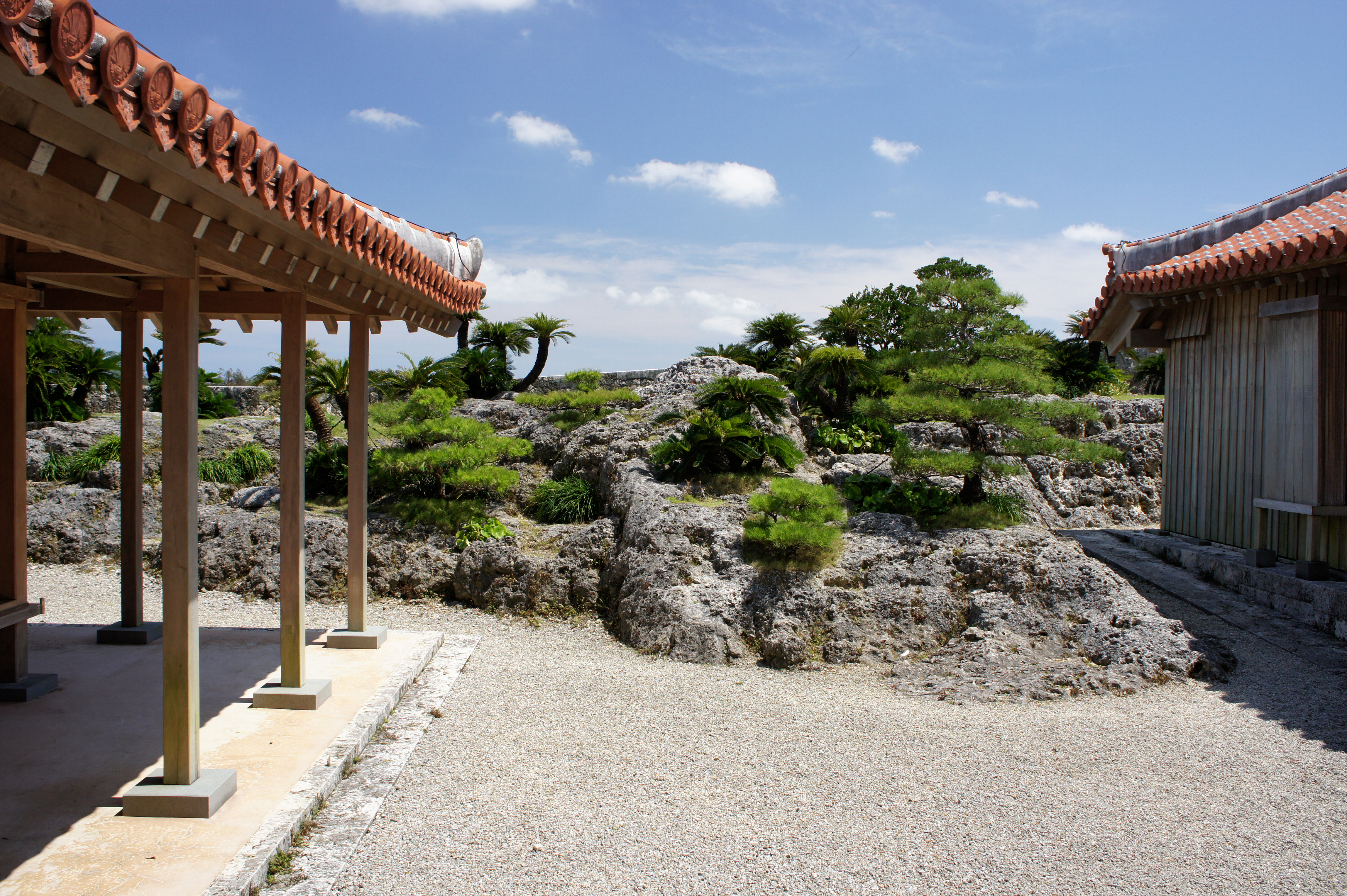 at Shuri Castle in Naha, Okinawa prefecture, Japan